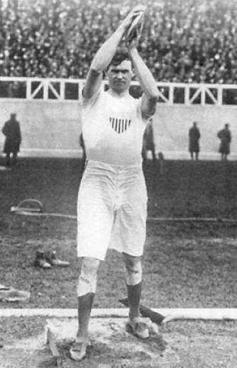 American athlete Martin Sheridan in the discus throw competition at the Summer Olympics 1908 in London. Source: Illustration in the "Fourth Olympiad 1908 London Official Report" published by the British Olympic Association in 1909